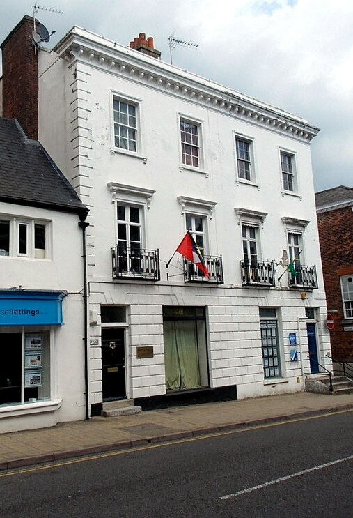 57 High West Street, Dorchester